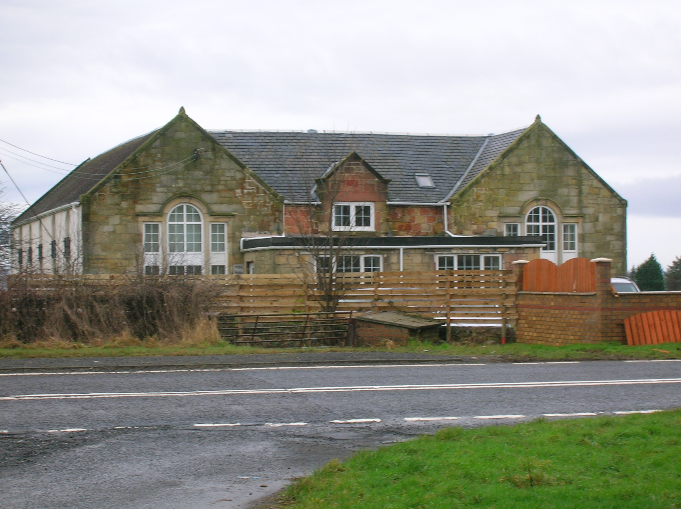 Annick Primary school, Benslie, Ayrshire, Scotland.